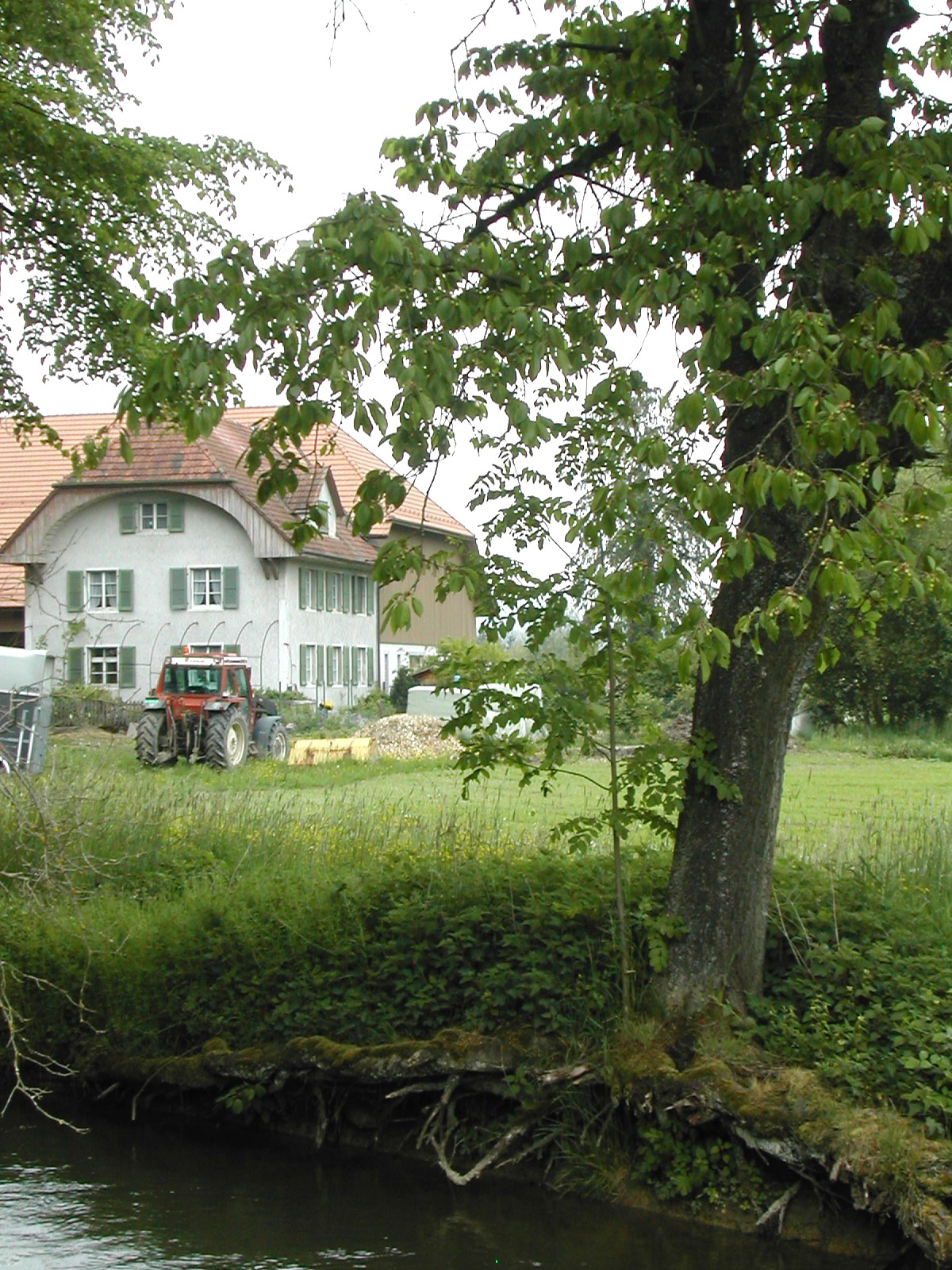 River and farm house in Luterbach, Switzerland